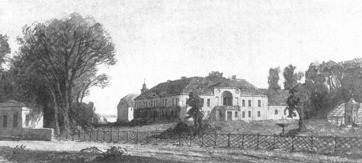 Glienicke at the time of prince Hardenberg (before 1822), by Hermann Schnee drawn in 1874